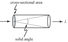 Author: Marc Levoy